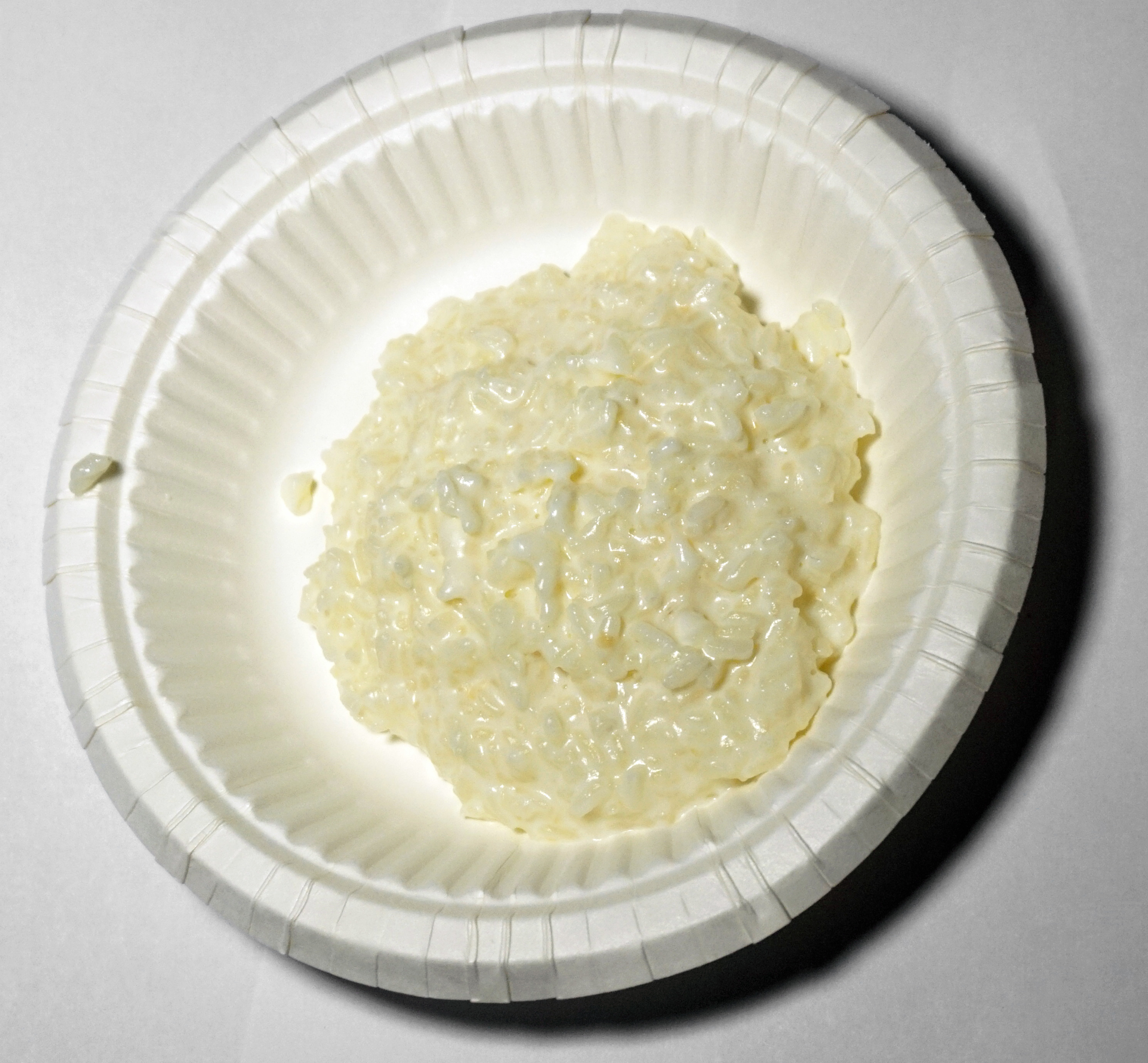 Rice porridge